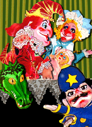 Noel Lambert Puppet Theatre Punch and Judy puppets.